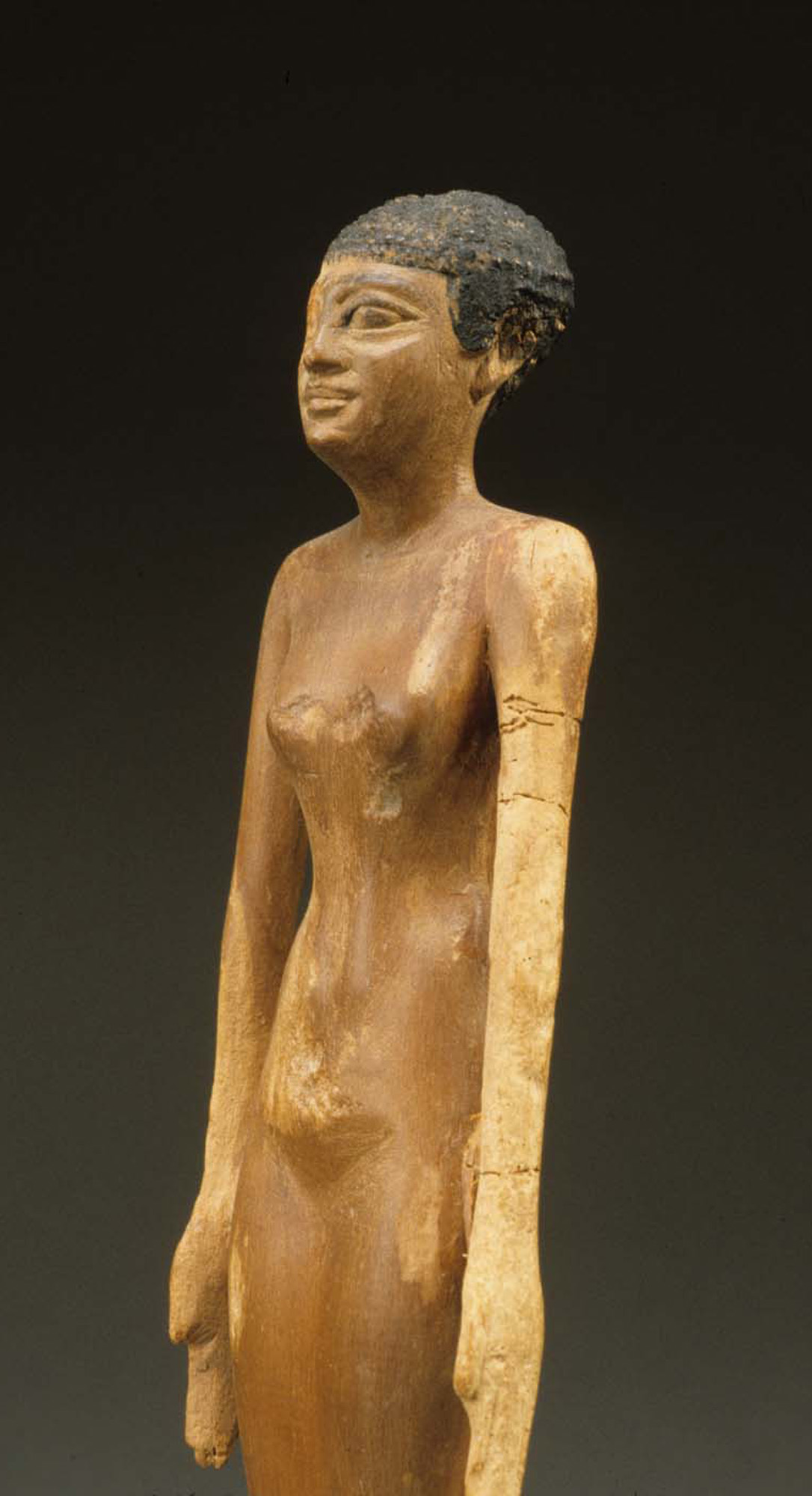 Statuette, young woman